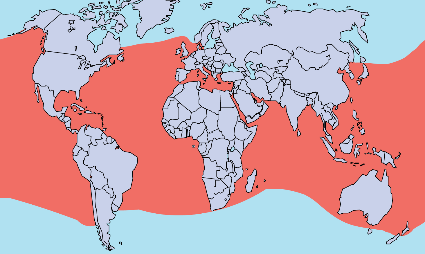 Distributional map of Cheloniidae